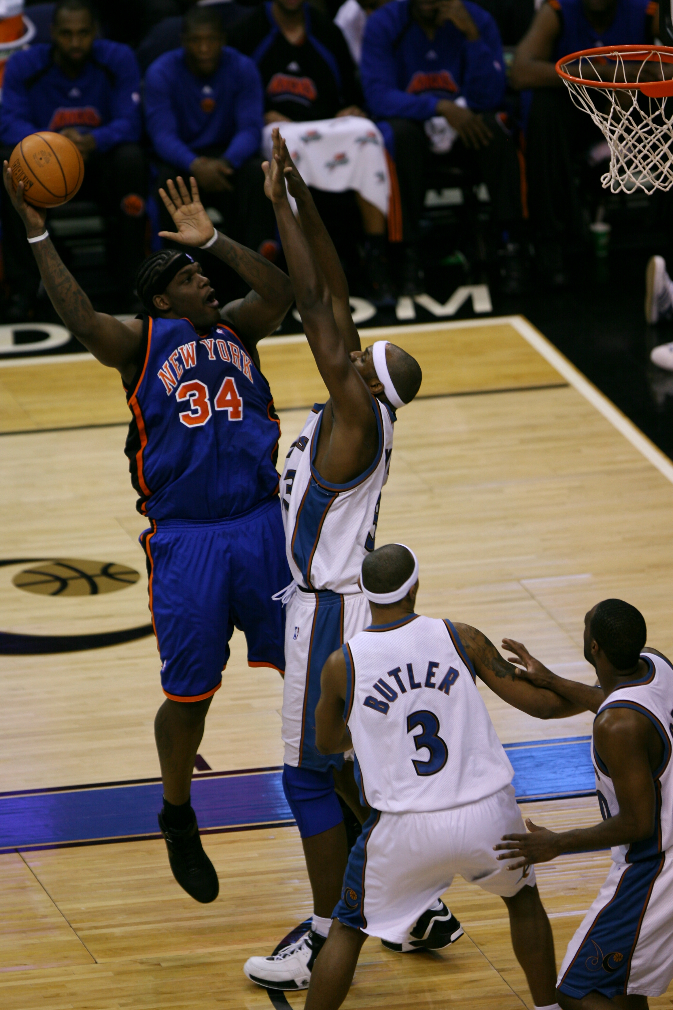 Eddy Curry playing with the New York Knicks